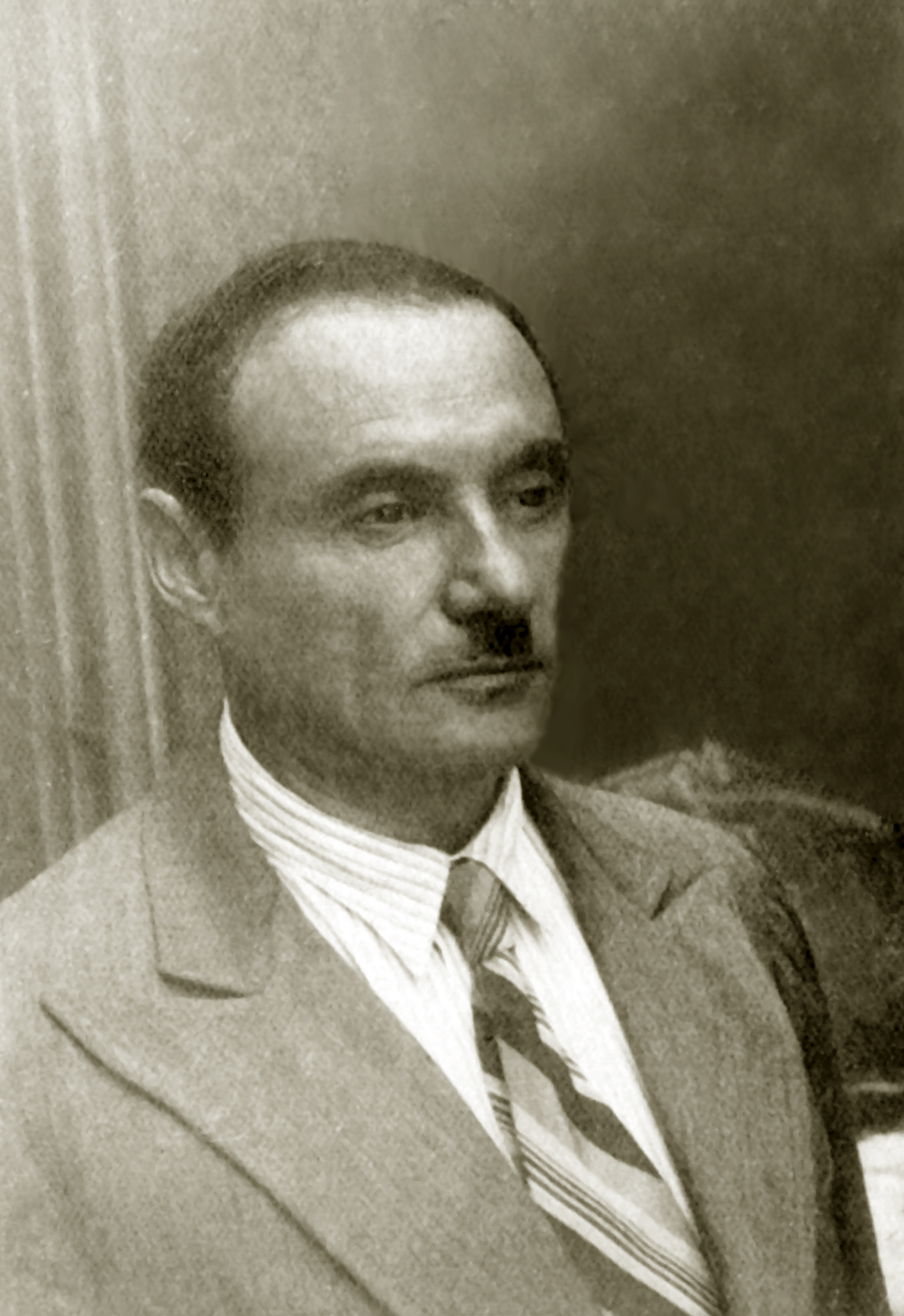 Volovik Arkadiy Borisovich. Рrofessor of Pediatrics